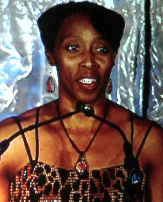 Gail Devers while being inducted to the National Track and Field Hall of Fame